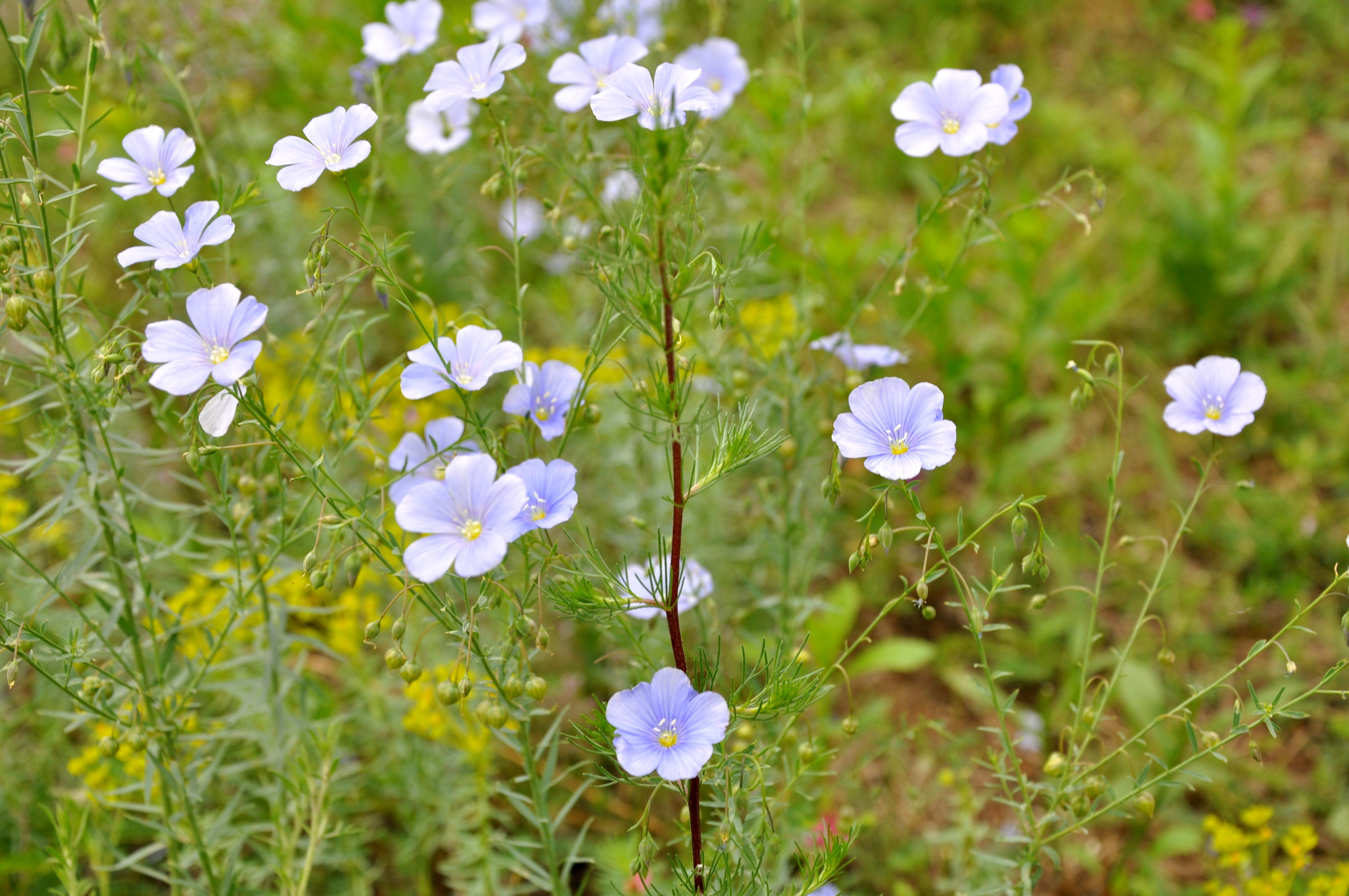 Taken in Racha, village Shkmeri